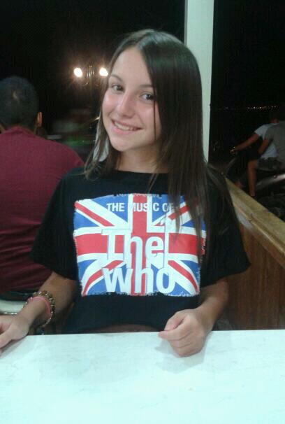 middle